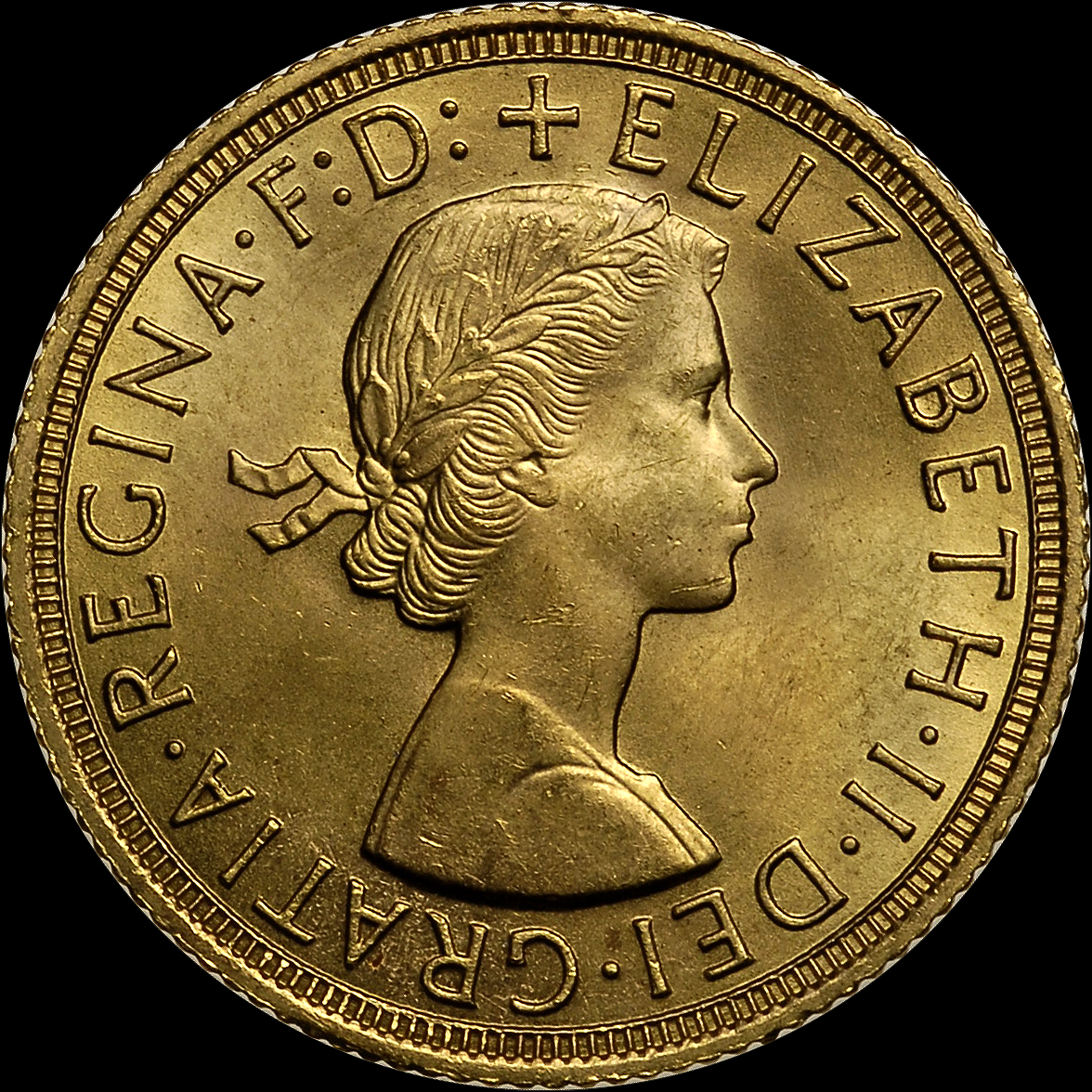 Obverse of the Elizabeth II sovereign, first type